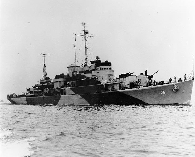 US National Archives photo # 19-N-73646, a US Navy photo from the Bureau of Ships Collection in the US National Archives. Rockaway (AVP-29), 6 October 1944, shortly after her main armament was reduced to a single 5"/38 gun